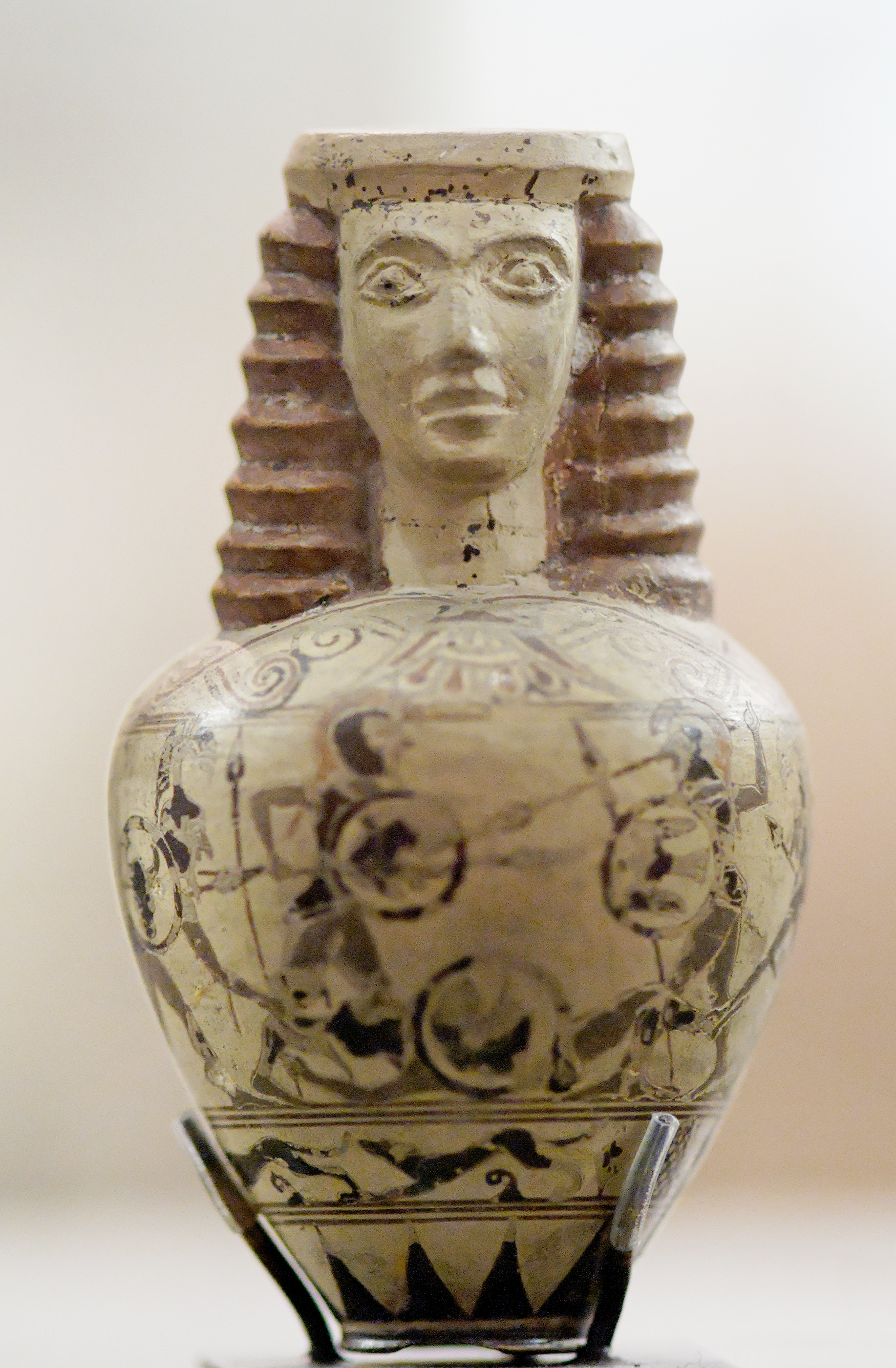 Upper tier: hoplites fighting; lower tier: hounds chasing a hare. Plastic aryballos in the shape of a woman's head, Late Protocorinthian (ca. 650–630 BC). From Thebes, Boeotia.